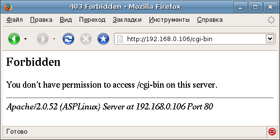 Screenshot of Russian Firefox 1.5.0.11 with the icon theme of Crystal Dream 1.0.2 taken by me. It shows the 403 error of the Apache web server.